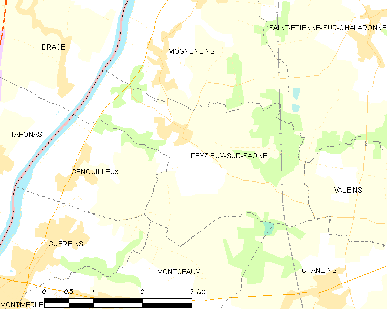 Map of French commune: Peyzieux-sur-Saône Map commune FR insee code 01295.png